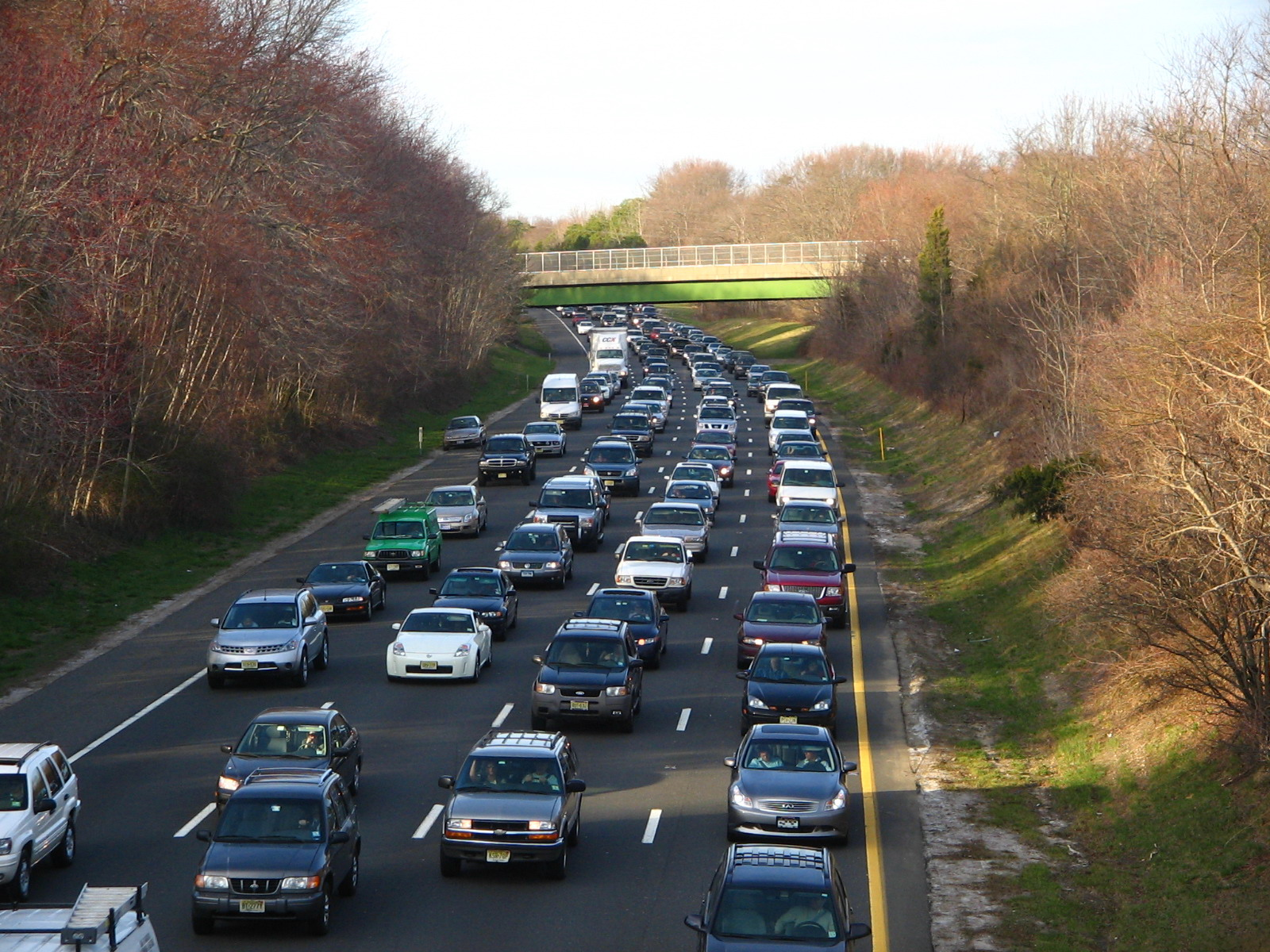 Heavy Volume Traffic on the Parkway at mile 96.6, in Wall Township, New Jersey